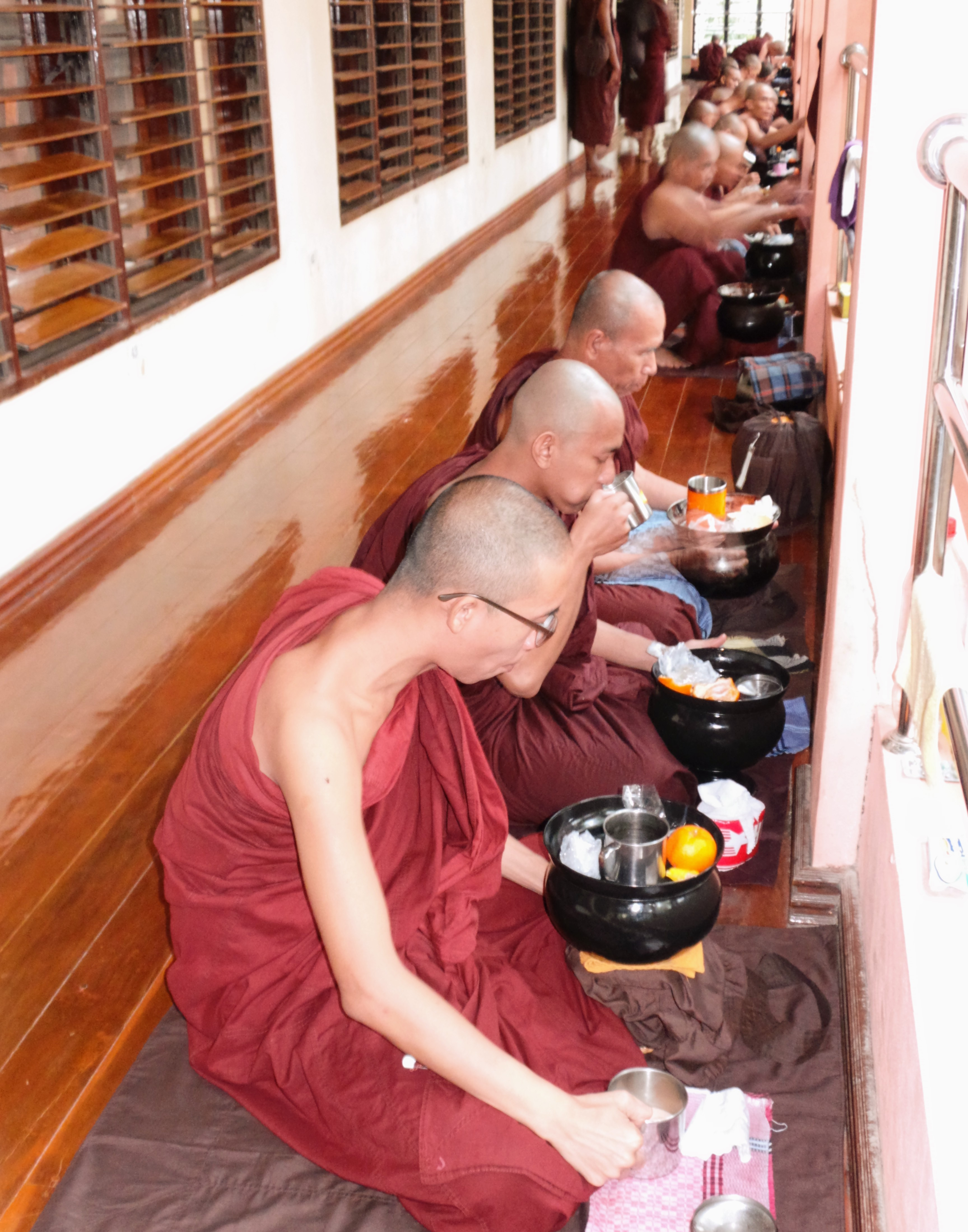 Monks having Breakfast using own bowl at Forest Monastery, Pa-Auk, Mon State မြန်မာဘာသာ: ဖားအောက်တောရရှိ သံဃာတော်များ မိမိသပိတ်ဖြင့် အရုဏ်ဆွမ်းဘုန်းနေစဉ်၊ ဖားအောက်၊ မွန်ပြည်နယ်